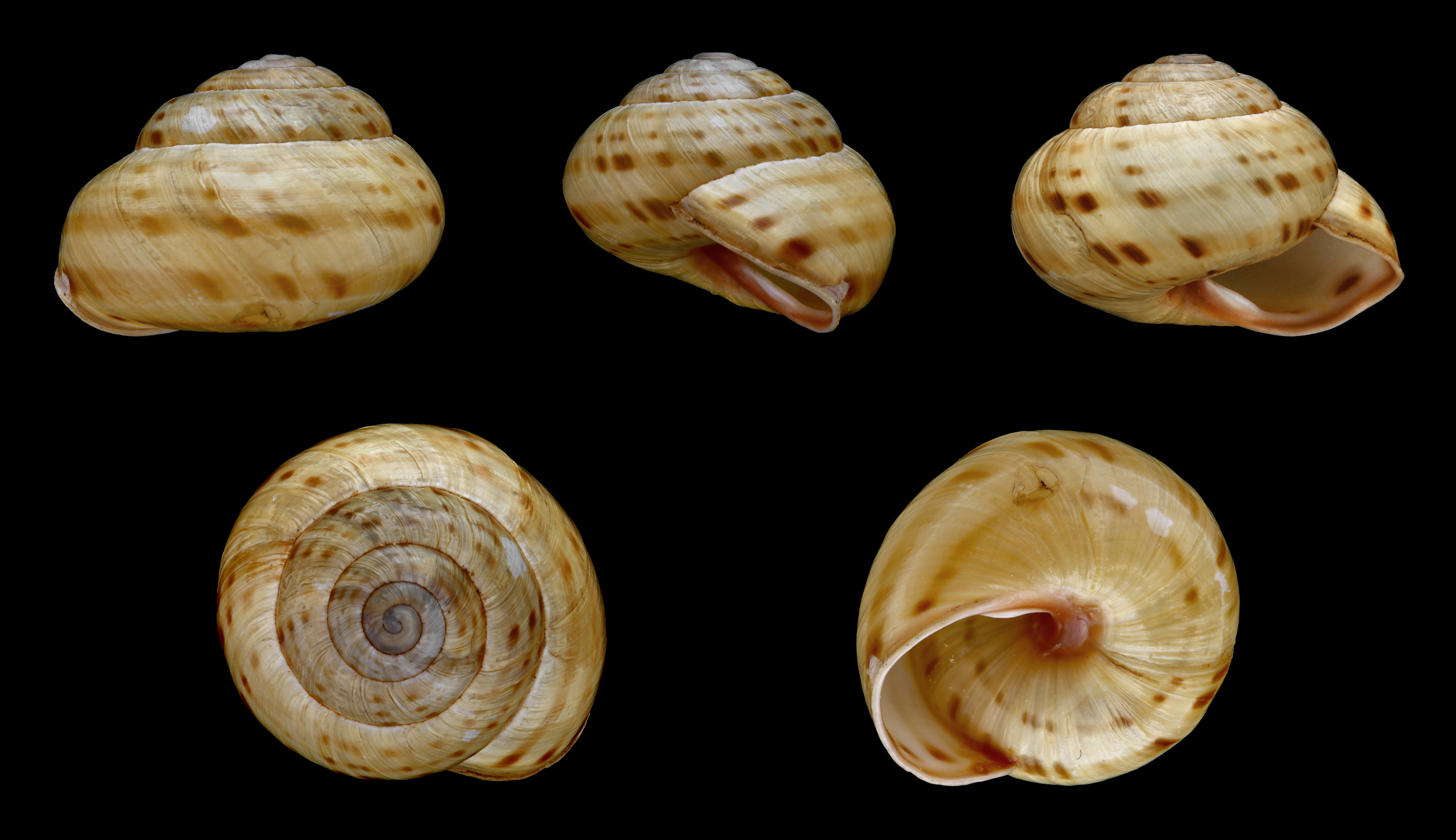 Diameter 2.0 cm; Originating from the Rhine Falls, Laufen-Uhwiesen, Switzerland, 47°40′41.37″N 8°36′52.93″E / 47.6781583°N 8.6147028°E; Shell of own collection, therefore not geocoded.